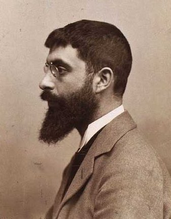 Picture of Mogens Ballin